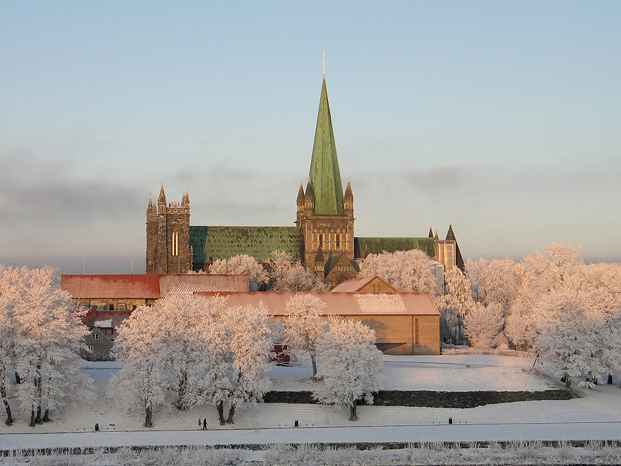 Nidaros Cathedral in Trondheim in the winter sun.